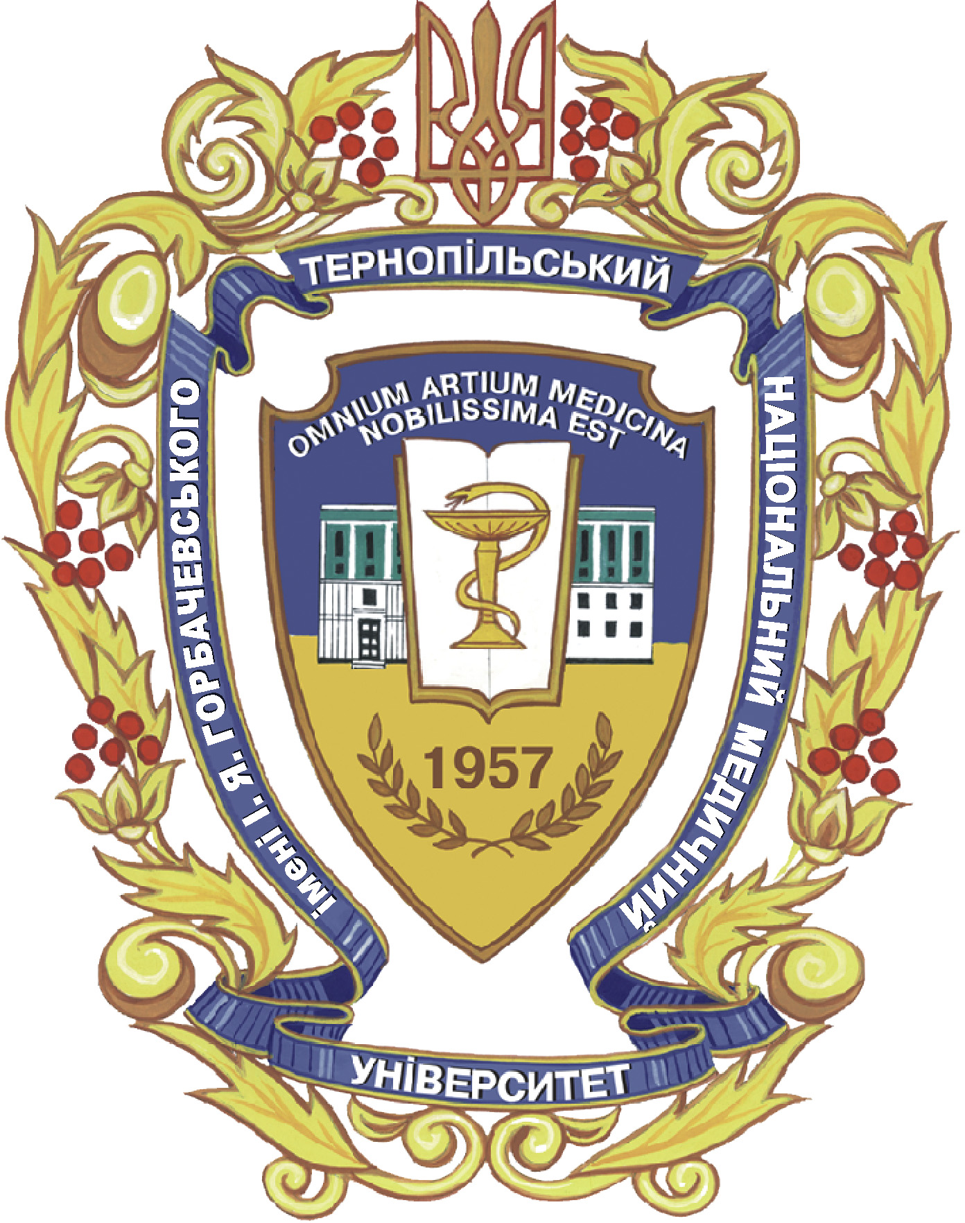 Logo of Ternopil National Medical University